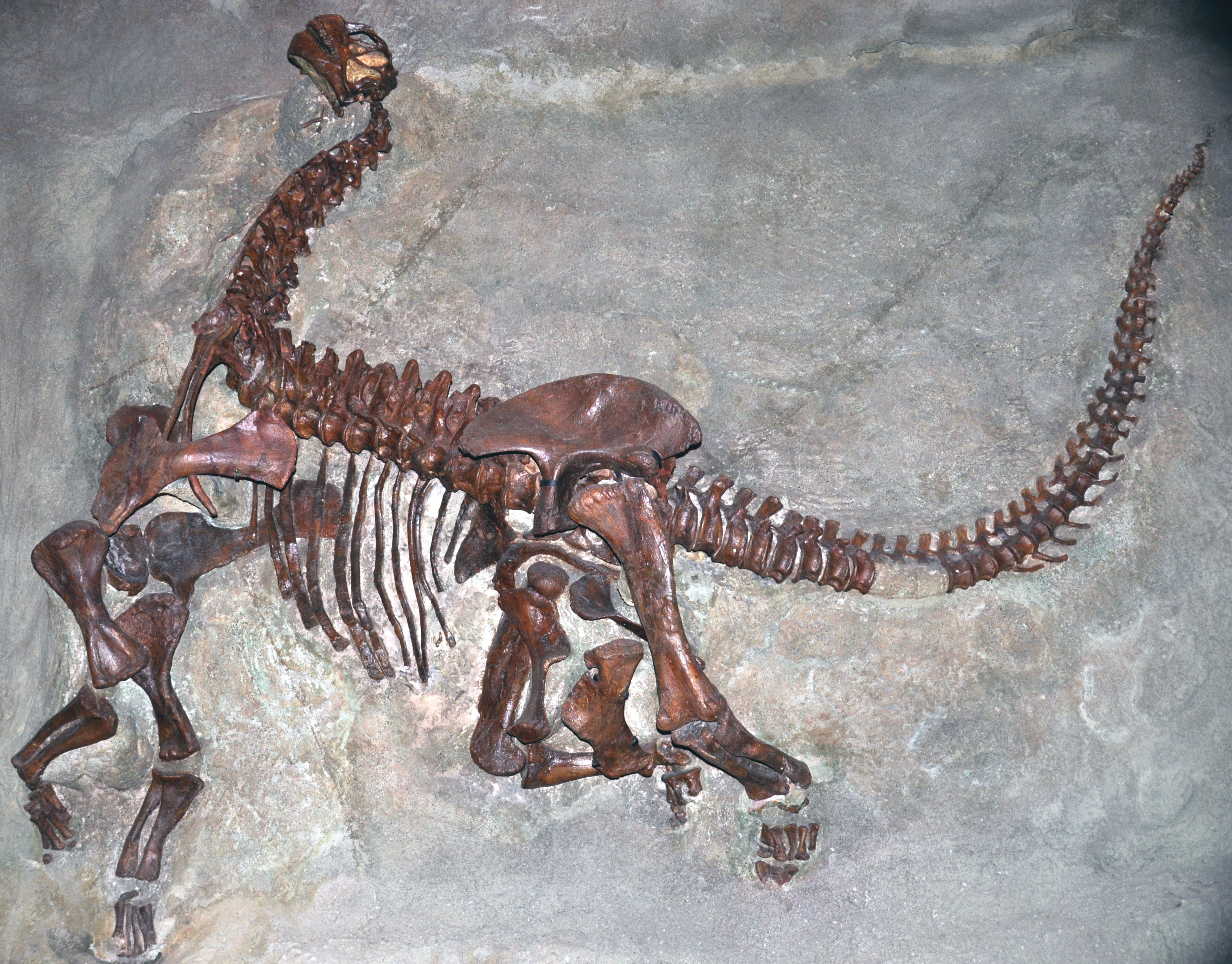 Camarasaurus lentus (Marsh, 1889) sauropod dinosaur from the Jurassic of Utah, USA (public display, CM 11338, Carnegie Museum of Natural History, Pittsburgh, Pennsylvania, USA). This is a near-complete juvenile sauropod dinosaur in the original fluvial sandstone matrix - such skeletons are extremely rare. Classification: Animalia, Chordata, Vertebrata, Dinosauria, Sauropodomorpha, Camarasauridae Stratigraphy: Brushy Basin Member, Morrison Formation, Upper Jurassic, 151 Ma Locality: Carnegie Quarry, Dinosaur National Monument, northeastern Utah, USA Sauropod dinosaurs were the largest terrestrial animals ever. They all have the same basic body plan: large body with four walking legs, very long neck & tail, and a small head relative to body size. Sauropods were herbivores, and are often perceived as holding their heads & necks up high to reach vegetation normally out of reach to other organisms. Modern reconstructions of many sauropod species depict them with heads and necks held close to the horizontal, or at low angles above the horizontal.